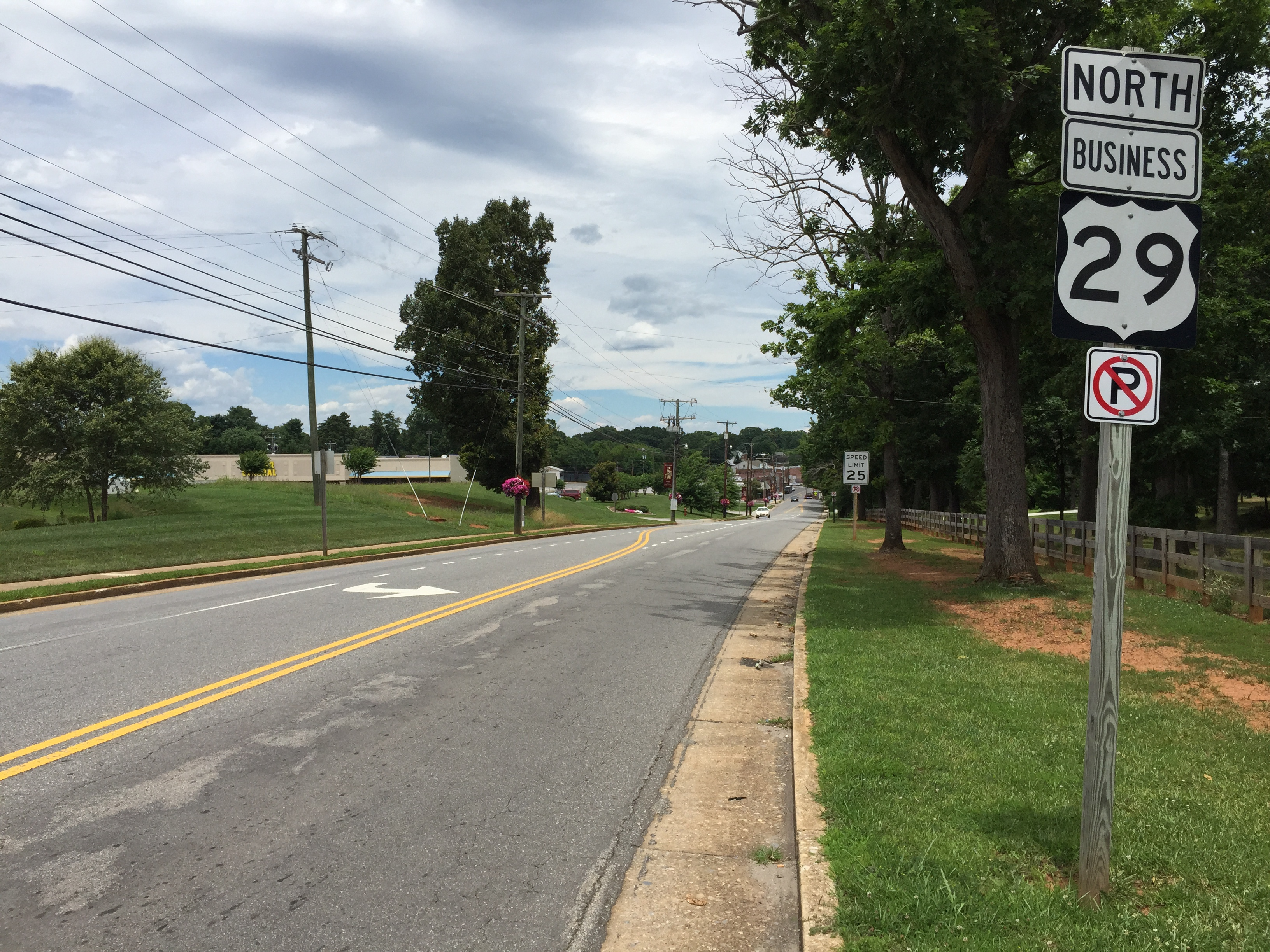 View north along U.S. Route 29 Business (Main Street) at Virginia State Route 40 (Vaden Drive/Gretna Road) in Gretna, Pittsylvania County, Virginia